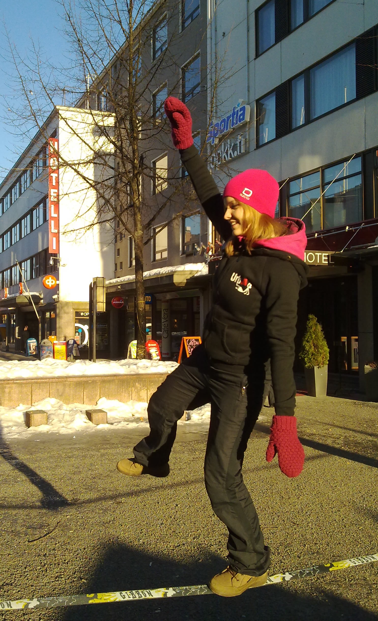 Urbanlining in Hämeenlinna, Southern Finland.